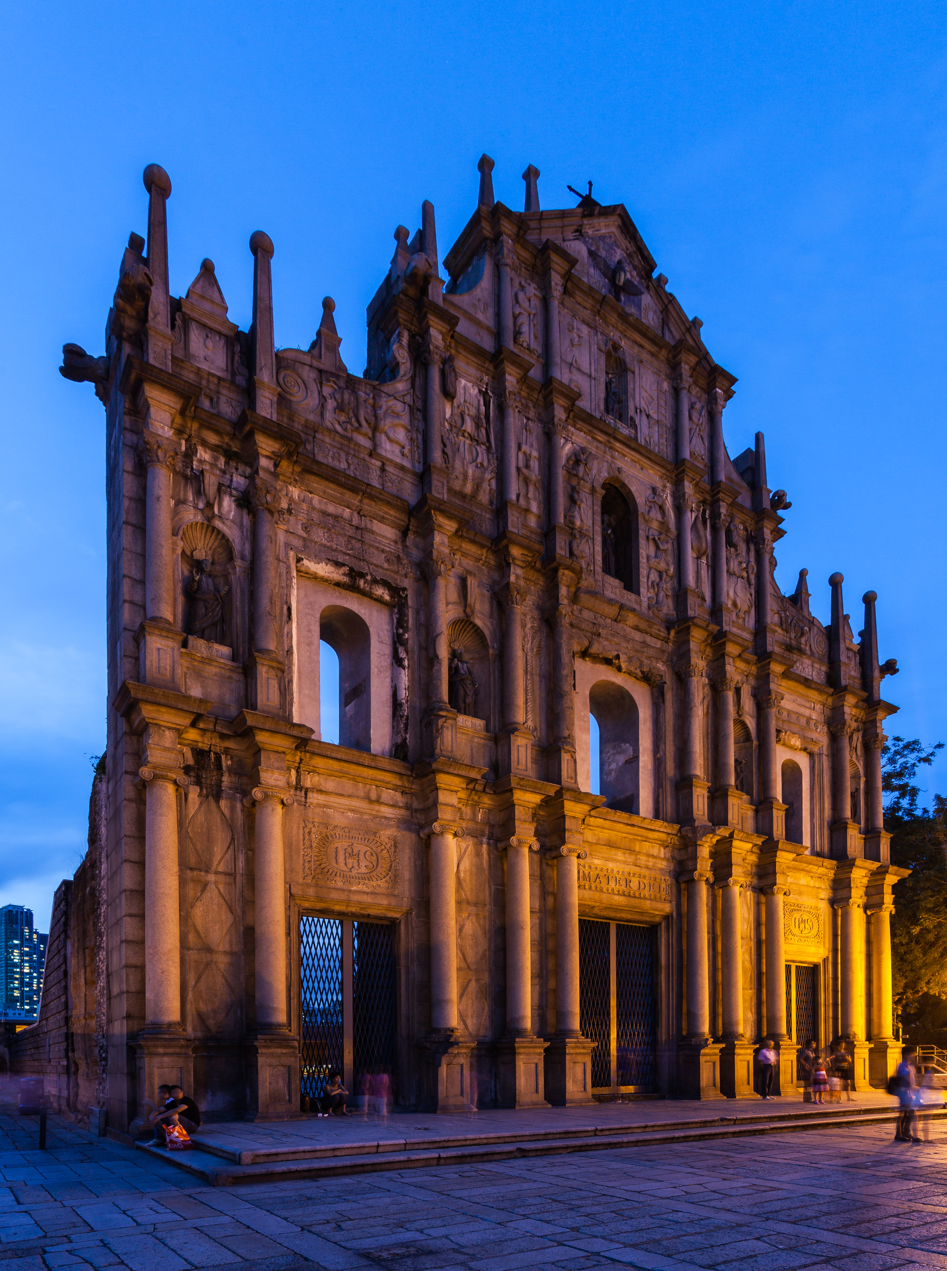 Remains of the Cathedral of Saint Paul, Macau